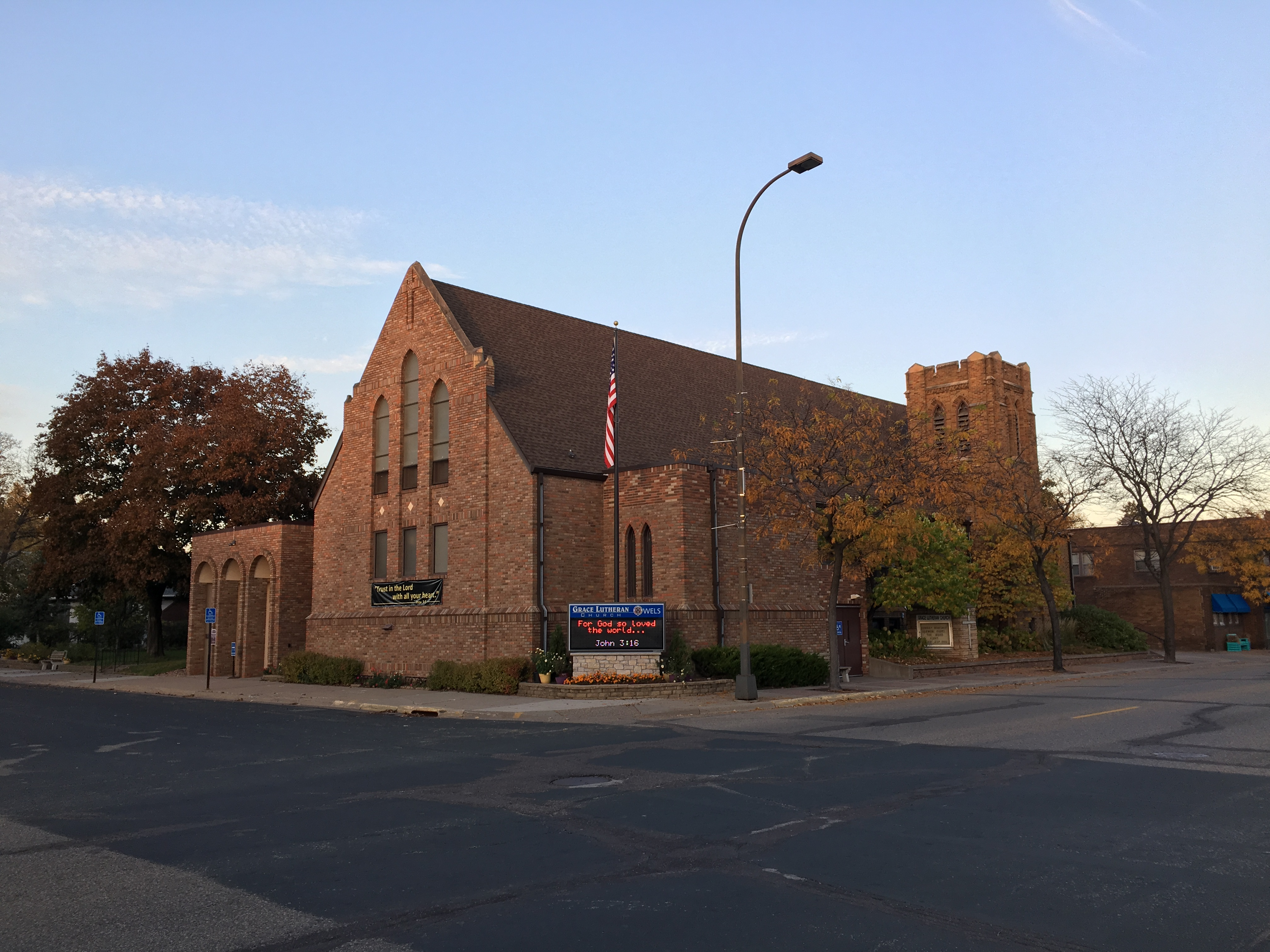 Grace Lutheran Church of the Wisconsin Evangelical Lutheran Synod (WELS) in South St. Paul, MN.